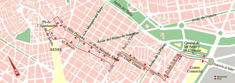 línea 35 de EMT Valencia